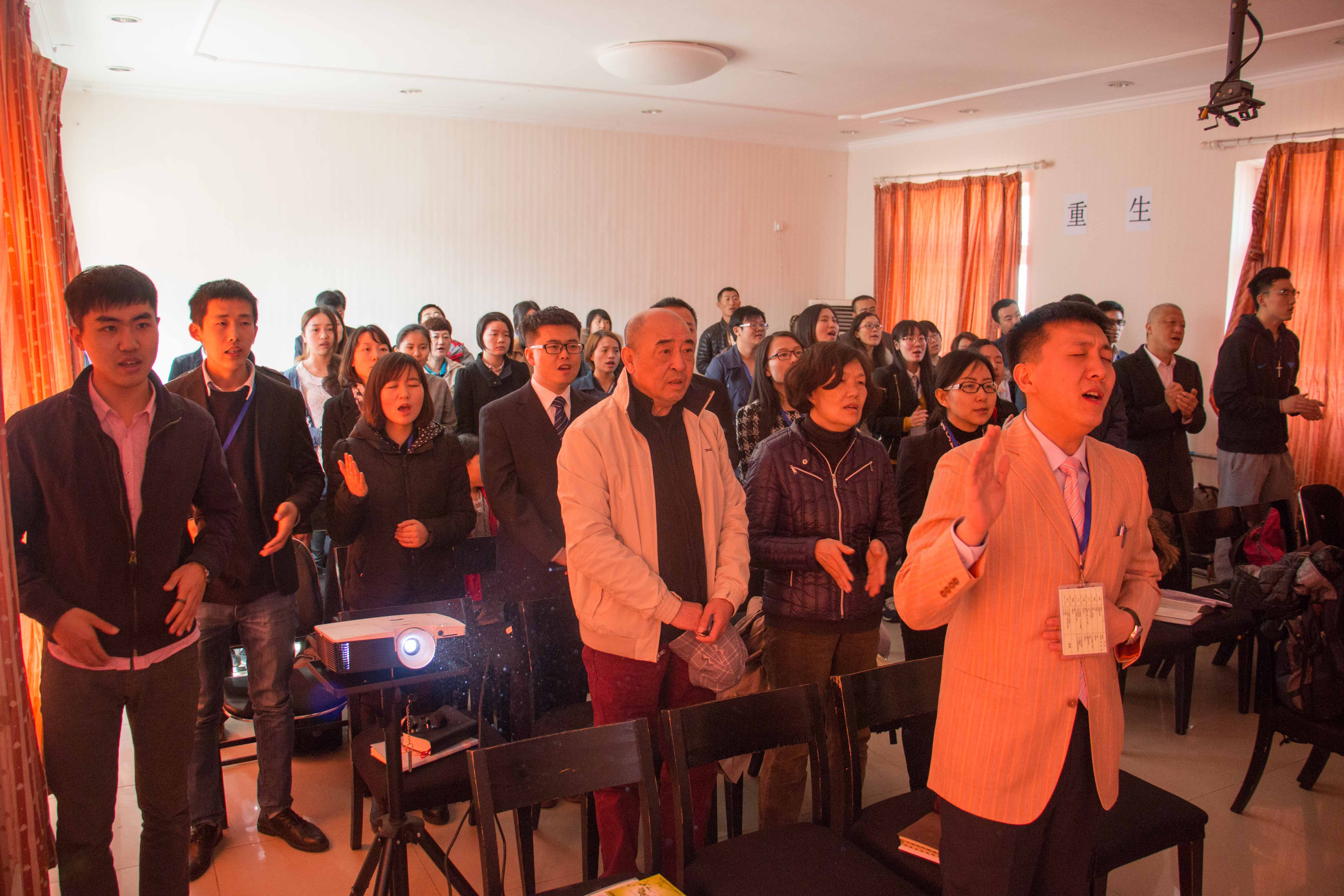 This photo show the activities in a church in Shunyi, Beijing, China.